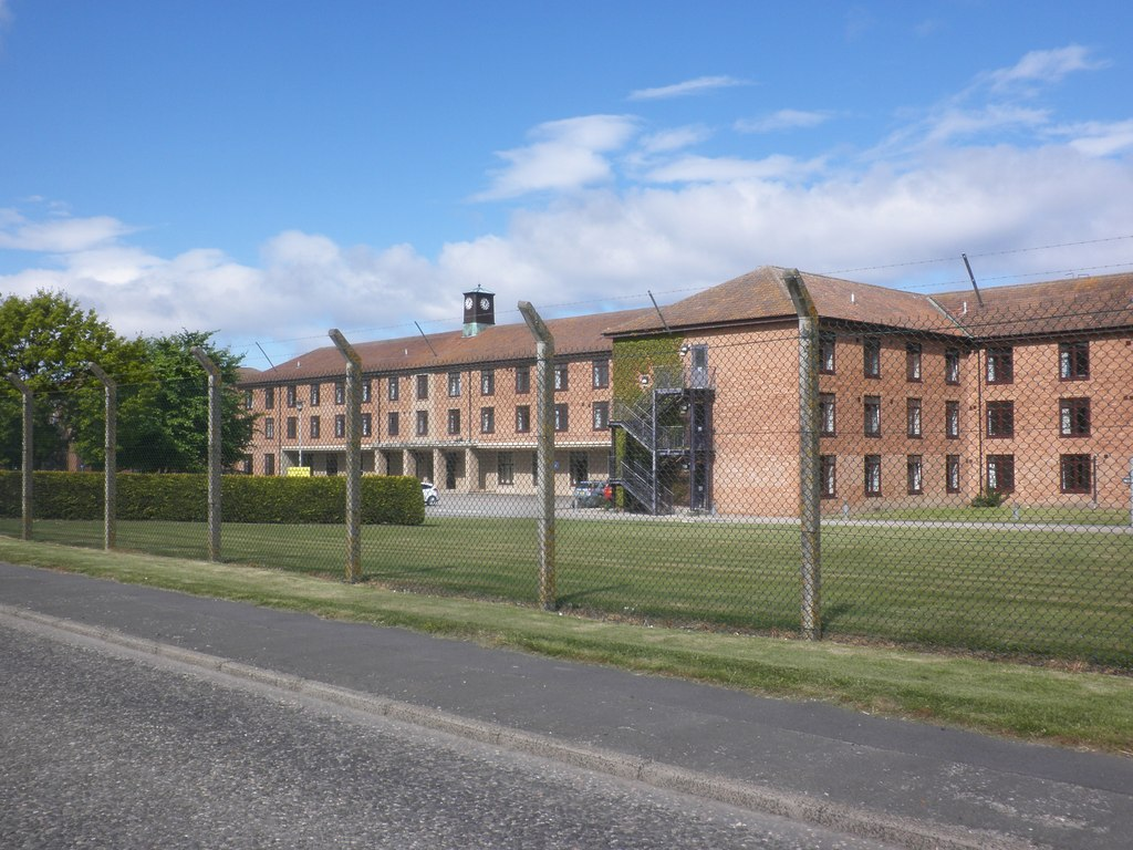 British Army base, Kinloss